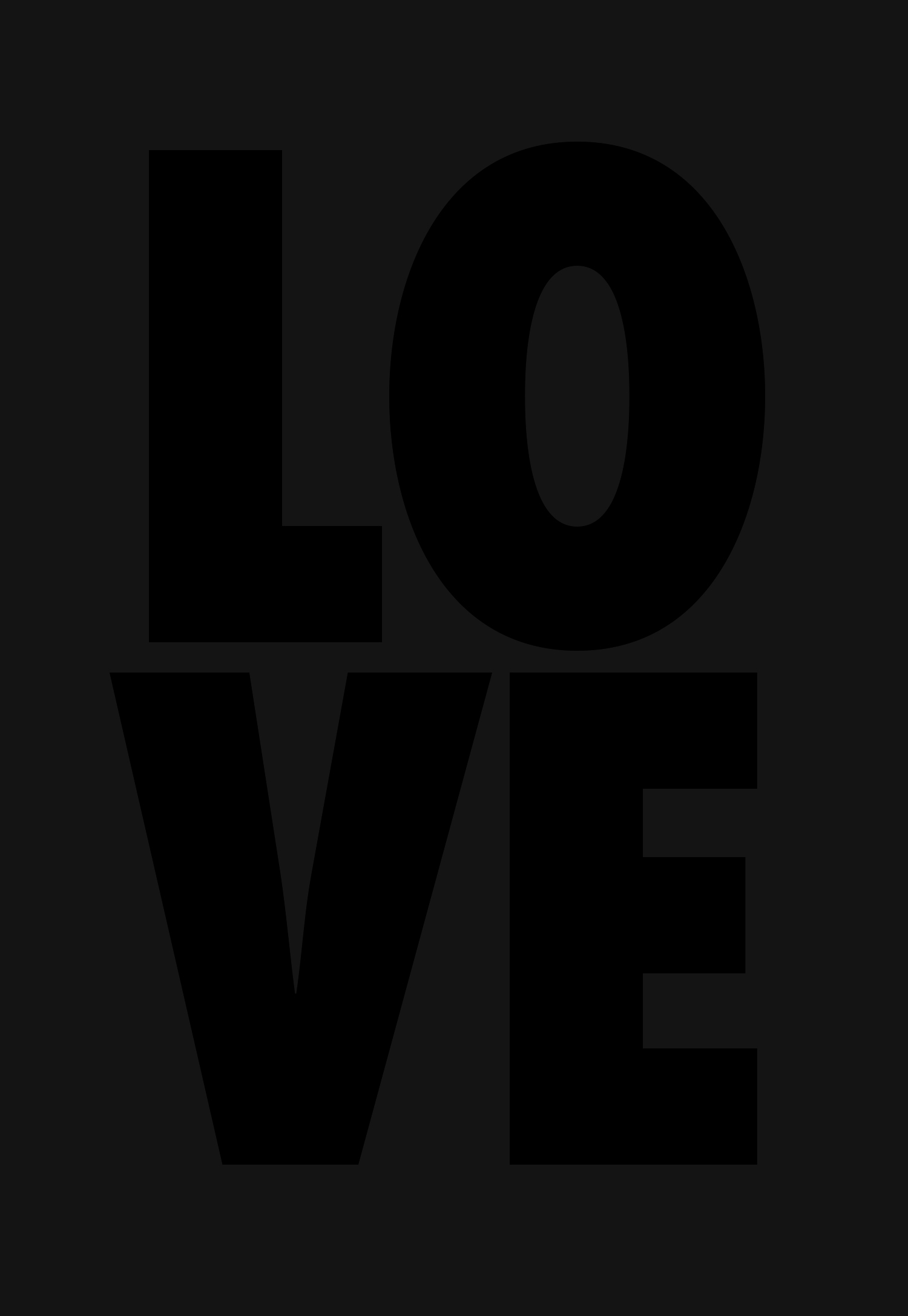 Stencil graffiti artwork, "Love", Tinker Brothers, 2018